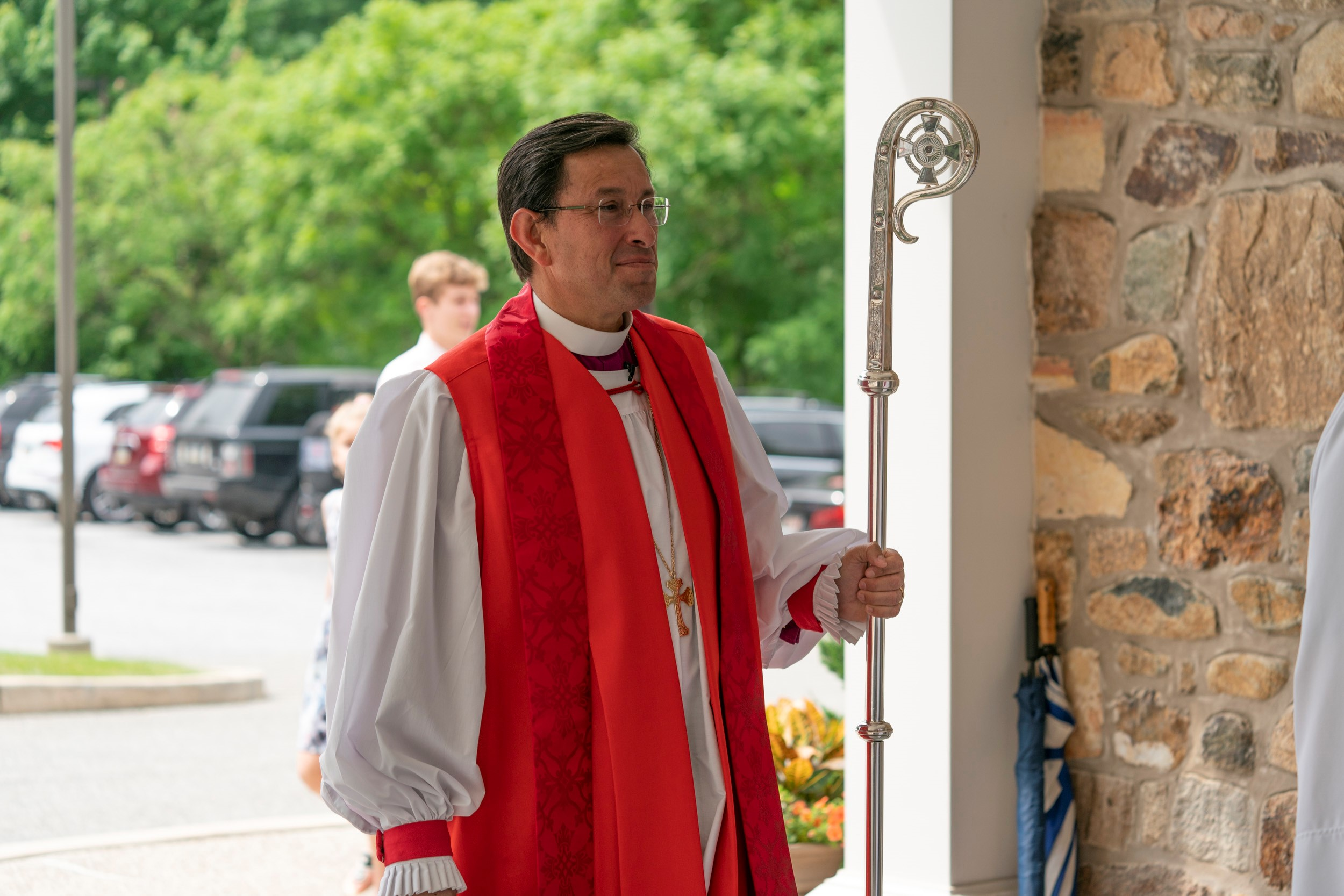 Bishop Daniel G.P. Gutierrez preparing to enter a service.